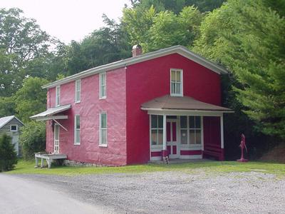 This red building served as the town's post office and general store and remains in excellent condition. View from Capon Springs Road (CR 16). RED STORE at CAPON SPRINGS, WV This building is permanently etched in my mind since I've passed it at least once a year since 1957. Many a day I jogged the quarter mile down the Capon Springs Road to the red store during my family's vacations to the Capon Springs resort. I recall one summer evening when 8 of us teenagers piled into a WV bug, and drove to the store to buy candy or popsicles and browse. The store has been vacant and boarded up for years and years, but someone seems to keep it pristeen on the outside. It's a well known landmark in the area, and I inwardly smile as I drive past it each autumn on my return to the my favorite getaway in the world.